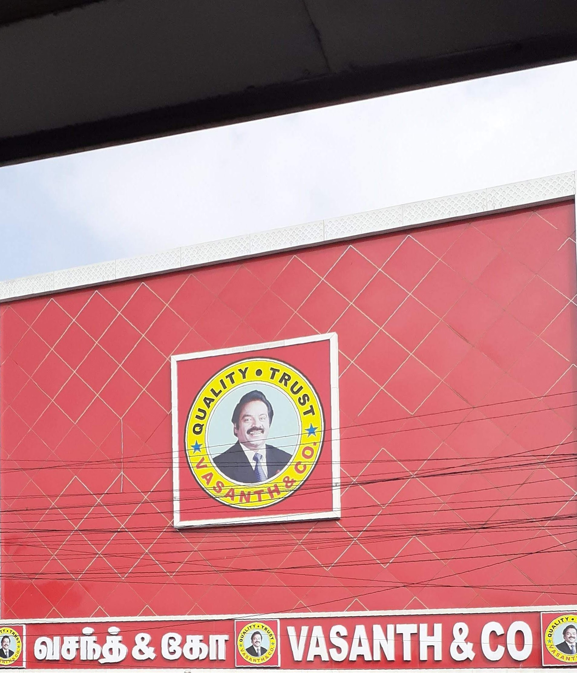 Vasanth and Co., Electronic appliances stores, Chennai, Tamil Nadu, India.